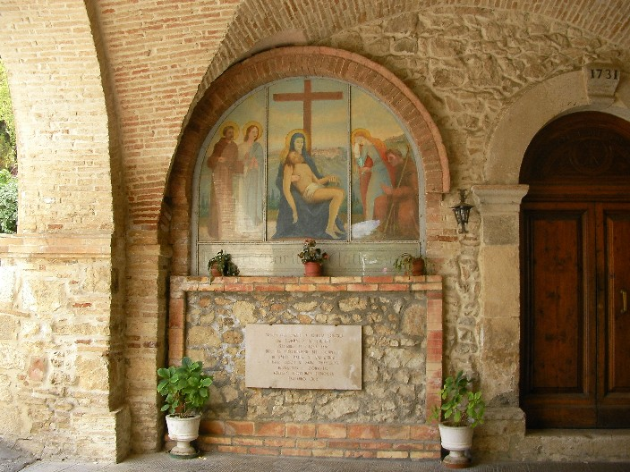 The fresco of the convent of St. Pasquale to Atessa that represents to the center the Pity, Saint Maria Maddalena and Saint Antonio from Padua to the right, St. Giovanni and San Francesco to the left.